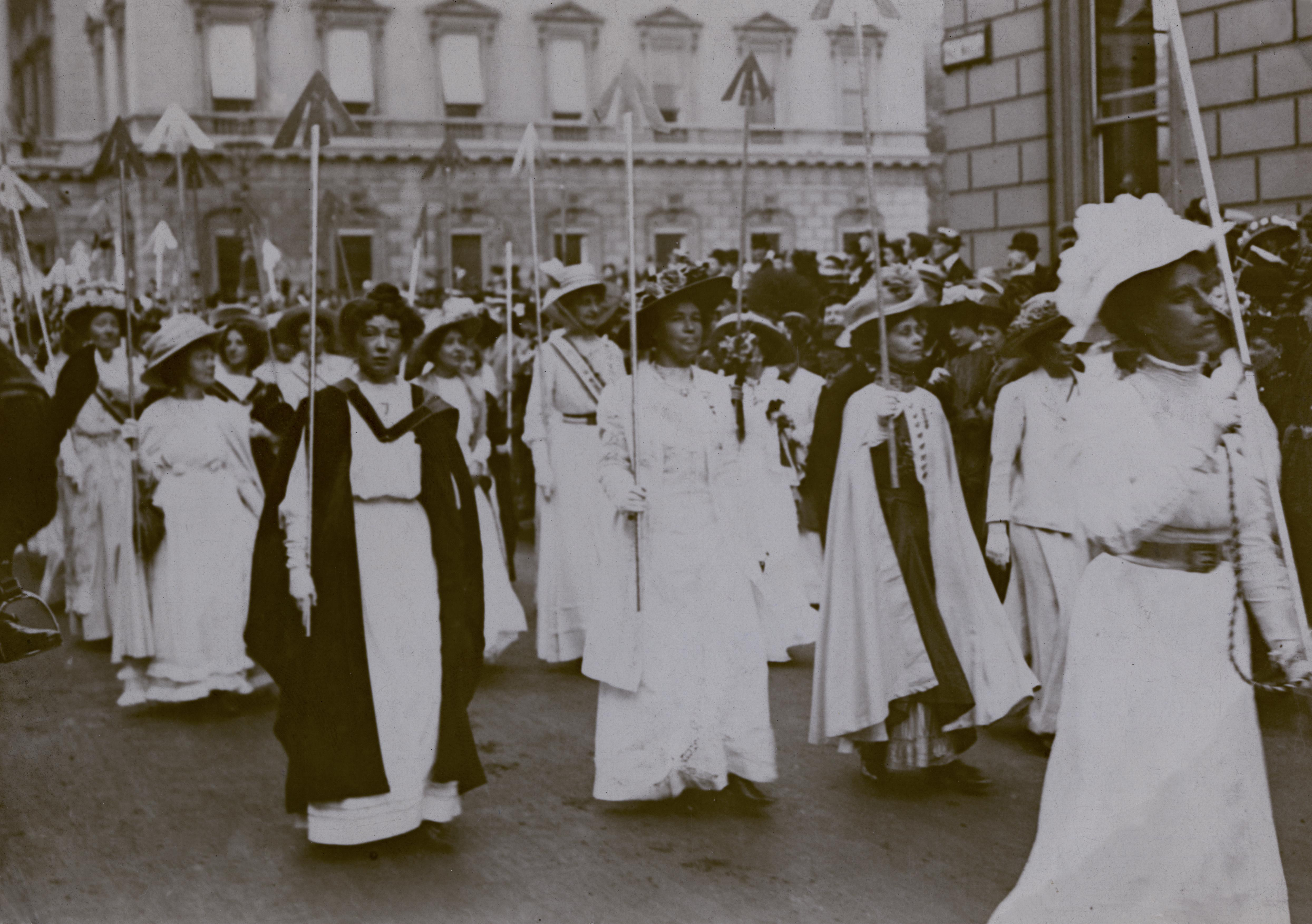 7JCC/O/02/071Photograph, printed, paper, monochrome, procession of women in white each carrying a pole topped by an arrow head, among them Christabel Pankhurst in academic robes, Emmeline Pethick Lawrence, Emmeline Pankhurst and Constance Lytton; printed caption on reverse 'Suffragette procession. Mrs Pankhurst leading the 'Arrow', the released prisoners procession', also 'General Press Photo Company, 32 Bream's Buildings, Chancery Lane. Telegrams 'Illupresto London', Telephone City'